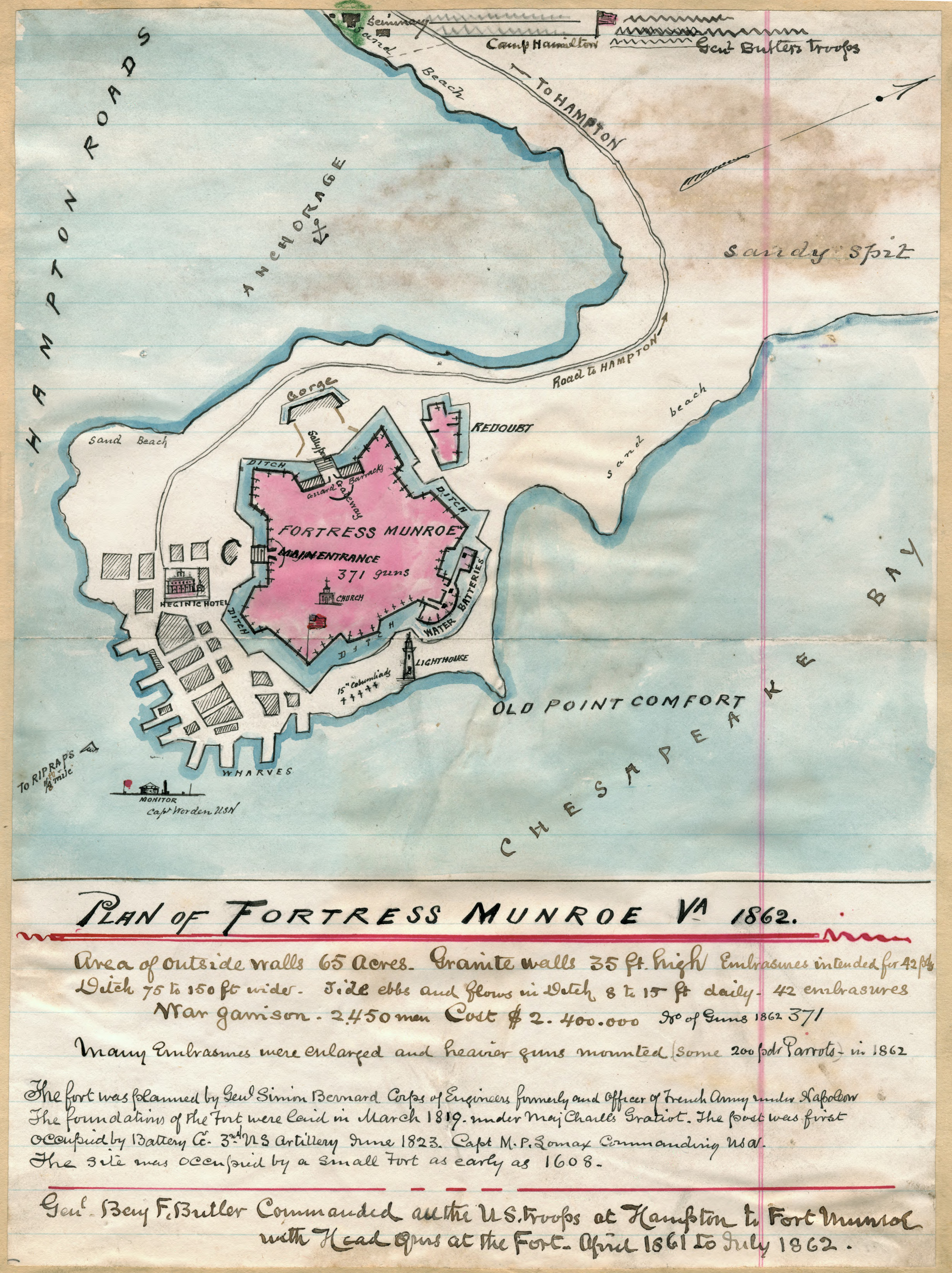 Pen and ink hand-drawn map of Fort Monroe, Virginia, 1862, by Robert Knox Sneden, 1865